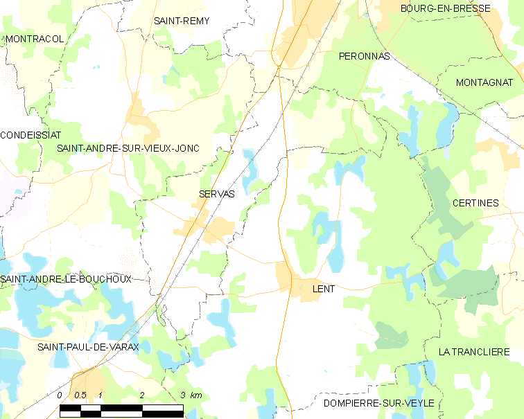 Map of French commune: Servas Map commune FR insee code 01405.png